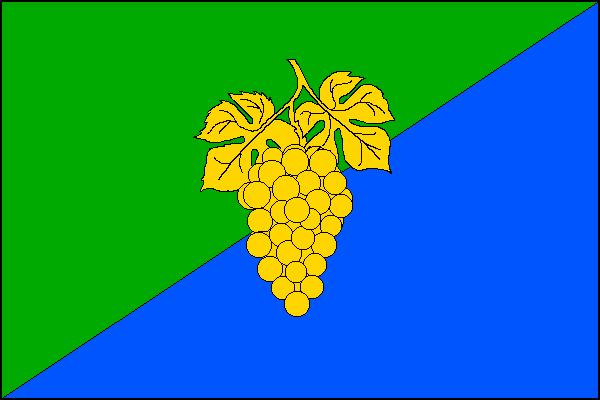 Municipal flag of Skalka (Hodonín District) village, Hodonín District, Czech Republic.